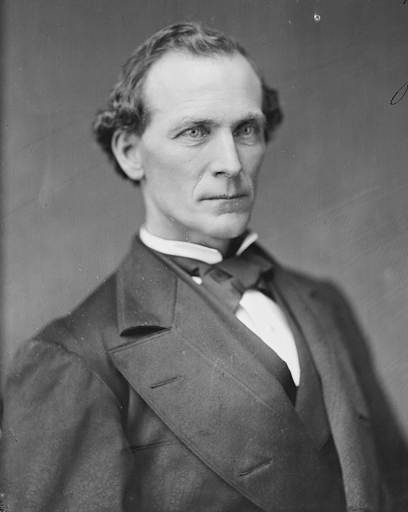 Kentucky Congressman Charles W. Milliken